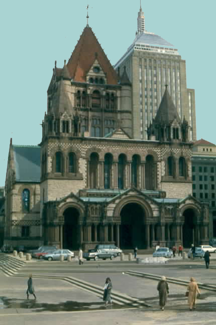 Trinity Church, Copley Square, Boston Henry Hobson Richardson